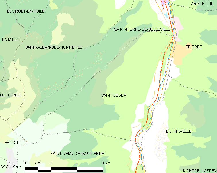 Map of French municipality